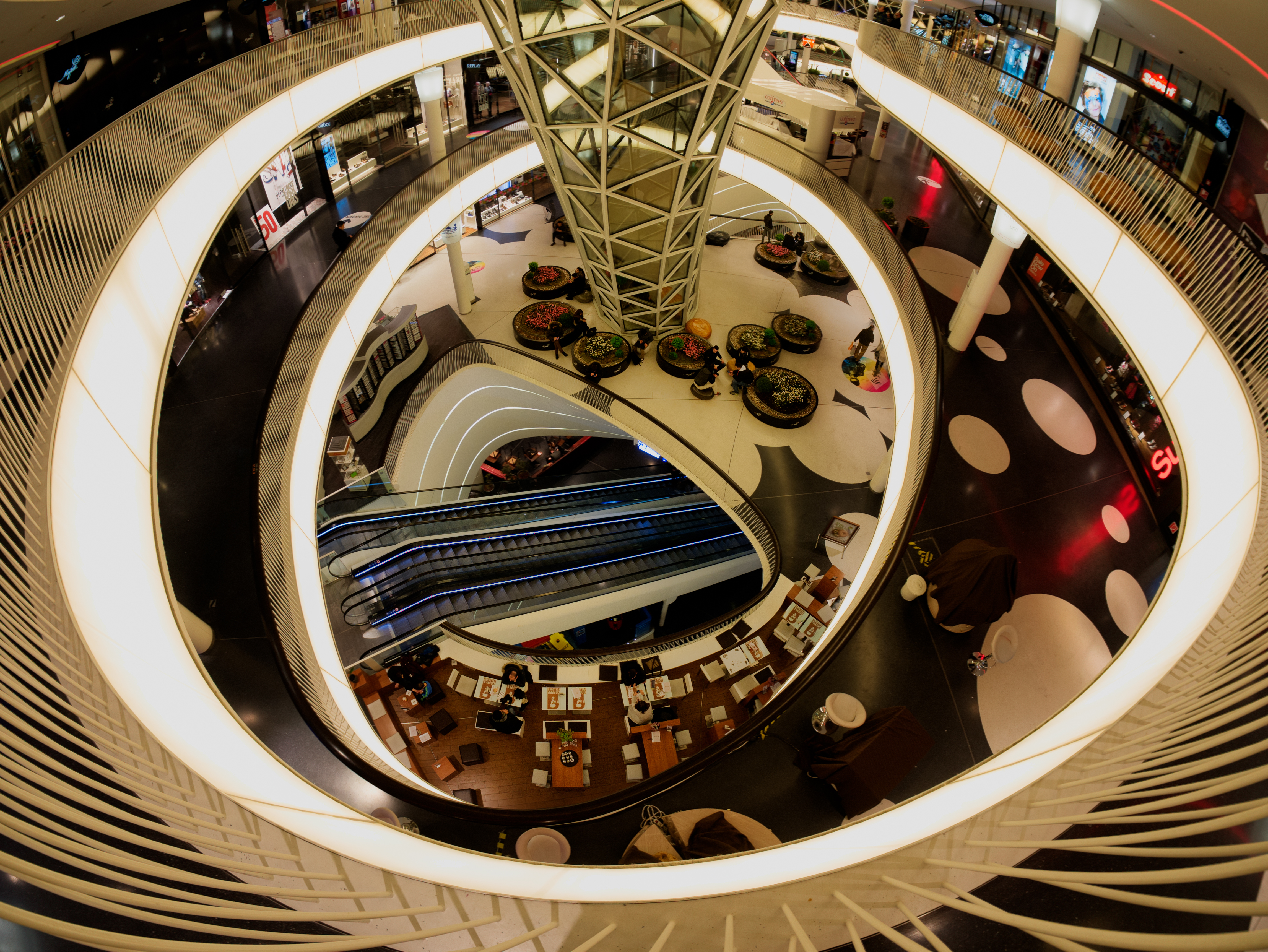 Straicase of the shopping mall MyZeil in Frankfurt Main